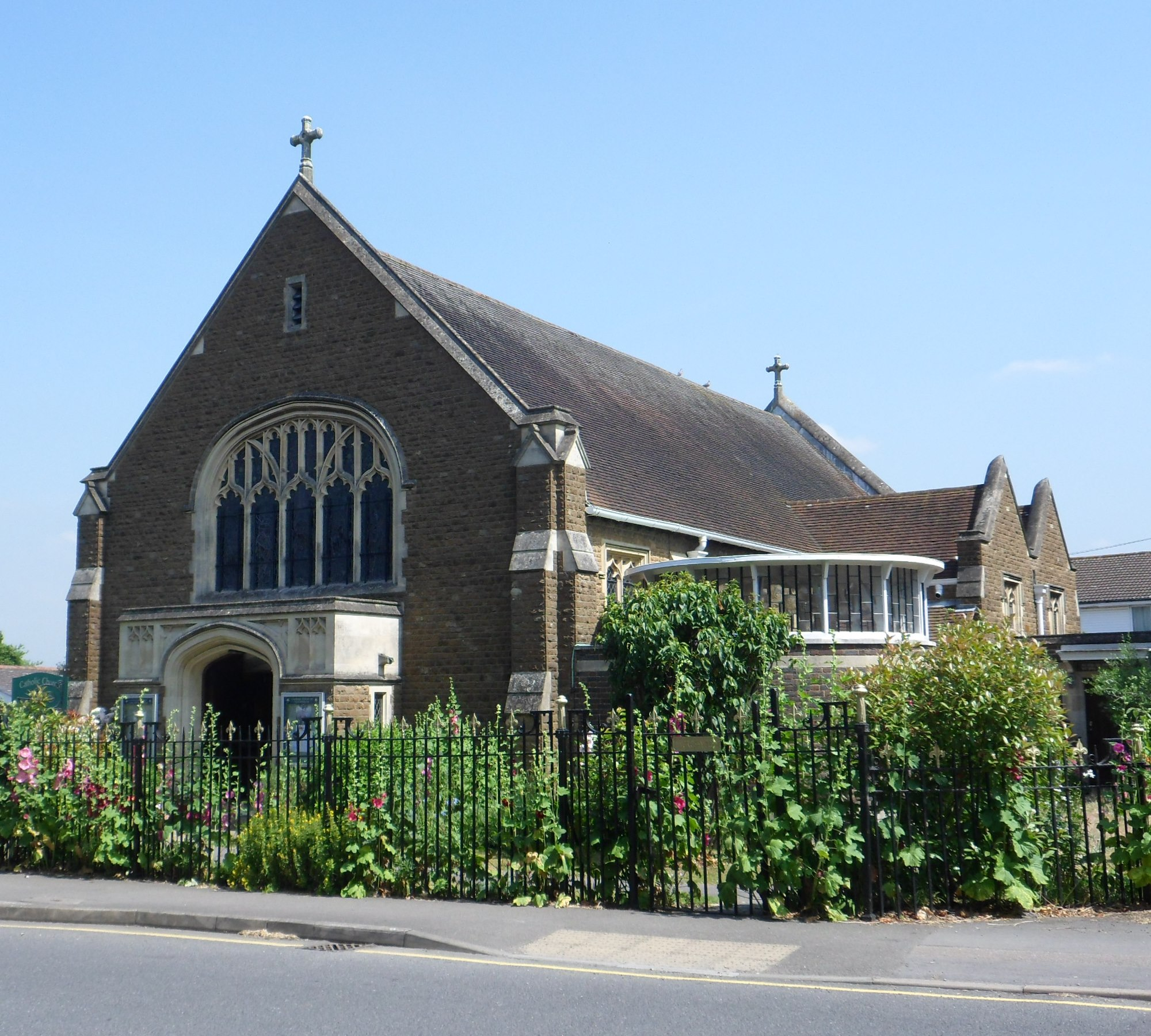 Church of Our Lady and St Peter, Garlands Road, Leatherhead, Mole Valley District, Surrey, England. The Roman Catholic parish church of Leatherhead.